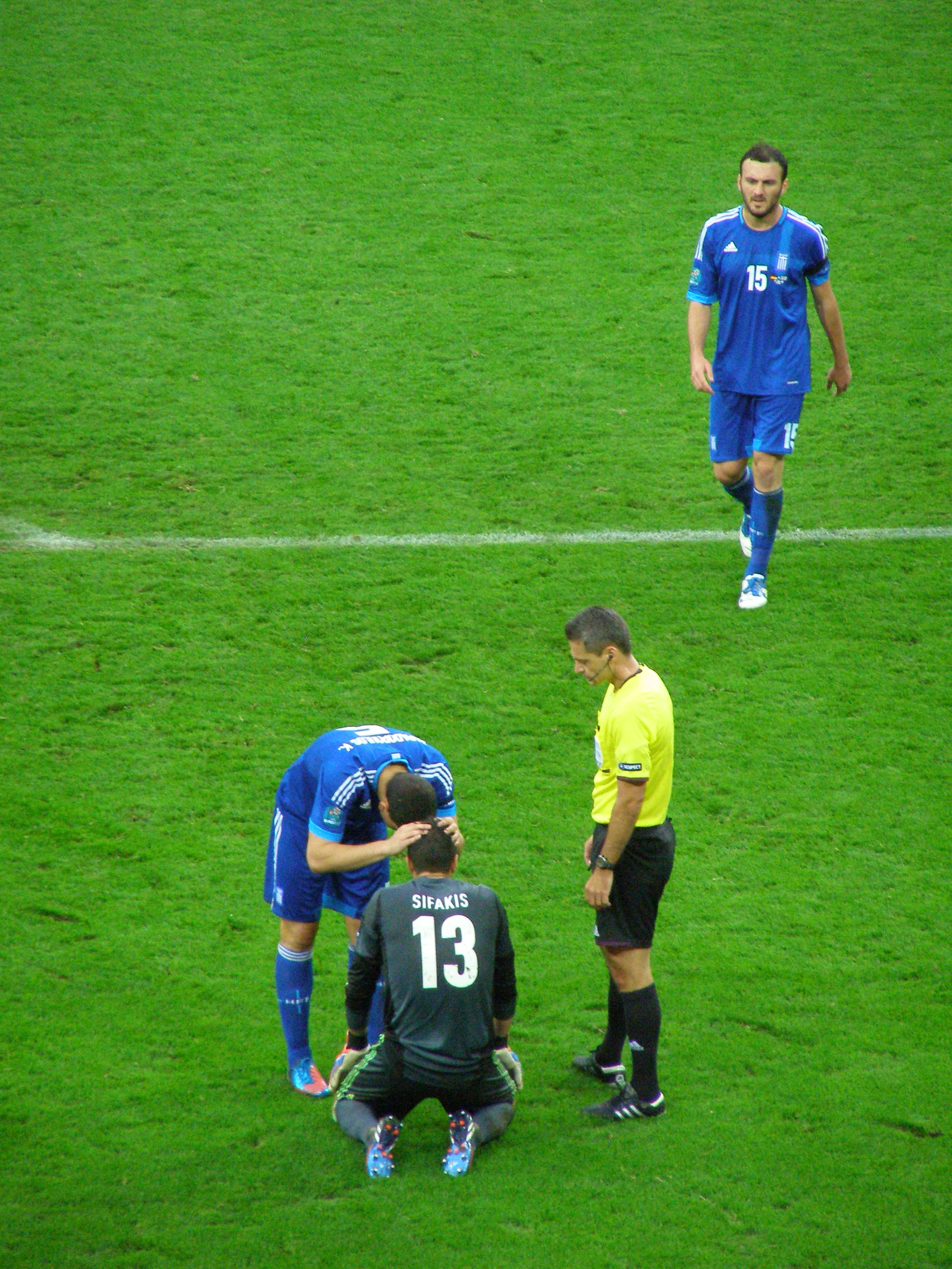 Gdańsk - PGE Arena - Euro 2012 - quarter final match Germany - Greece